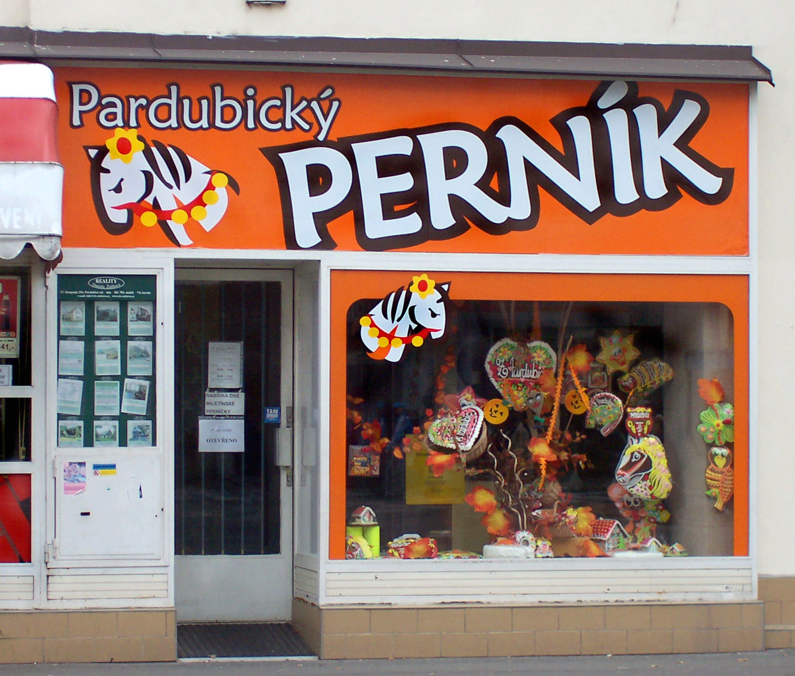 Gingerbread shop at Míru avenue in Pardubice, Czech Republic